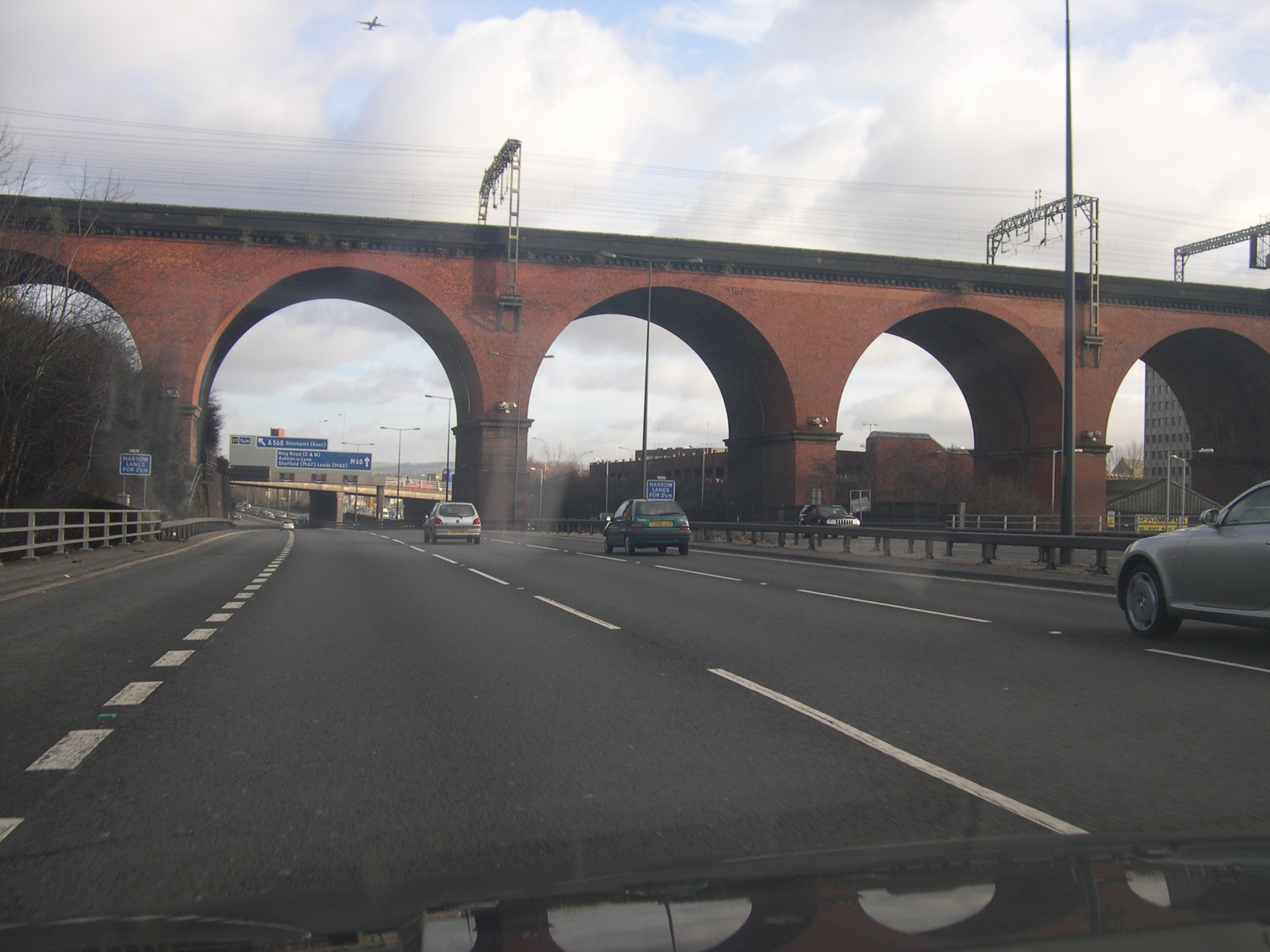 The M60 in Stockport as it passes under the viaduct